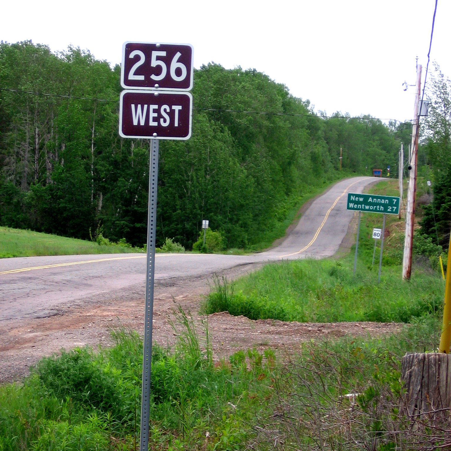 Highway route sign - Route 256, Colchester County, NS